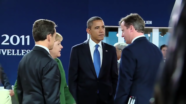 French President Nicolas Sarkozy, German Chancellor Angela Merkel, U.S. President Barack Obama and British Prime Minister David Cameron at the G20 Cannes Summit on November 3, 2011.